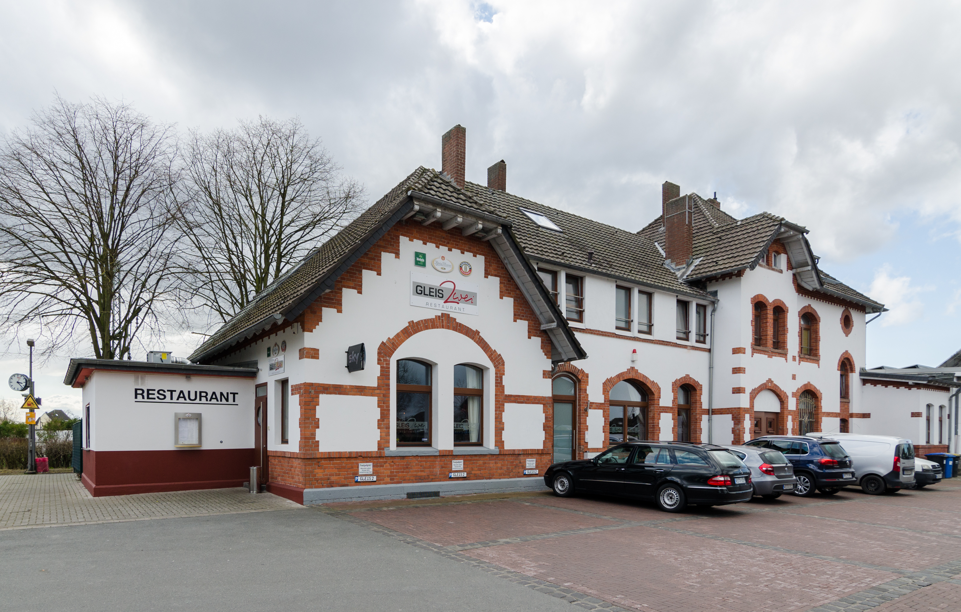 Rheinberg (North Rhine-Westphalia, Germany) – train station – former station building